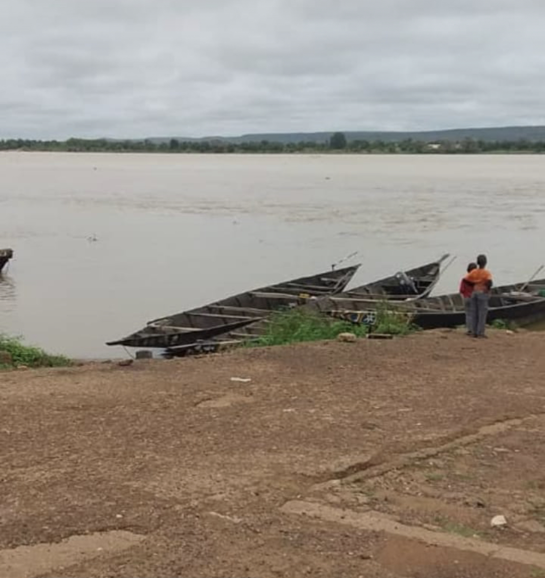 This is an image with the theme "Africa on the Move or Transport" from: Mali